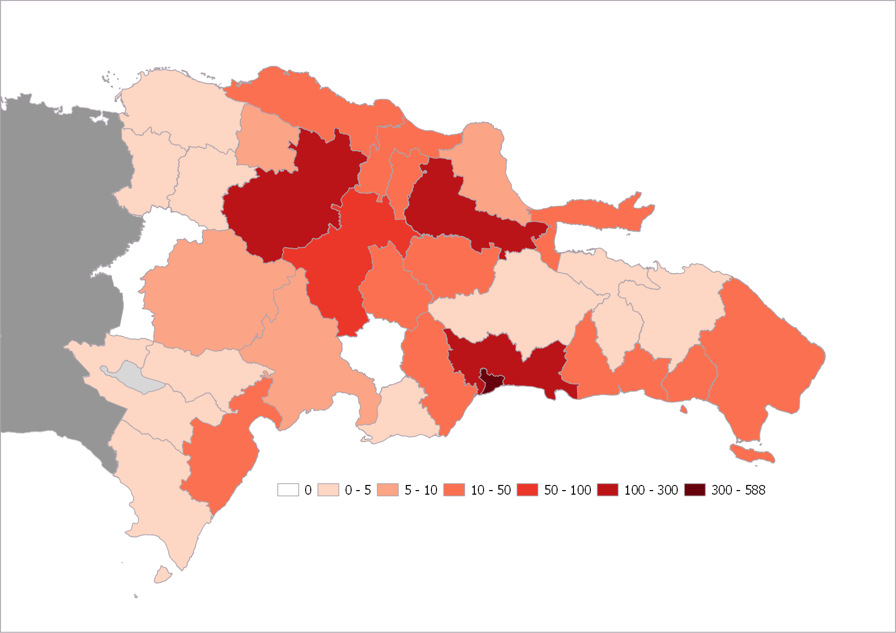 Confirmed COVID-19 cases in the DR. Map prepared using Ministry of Health of the Dominican Republic data.